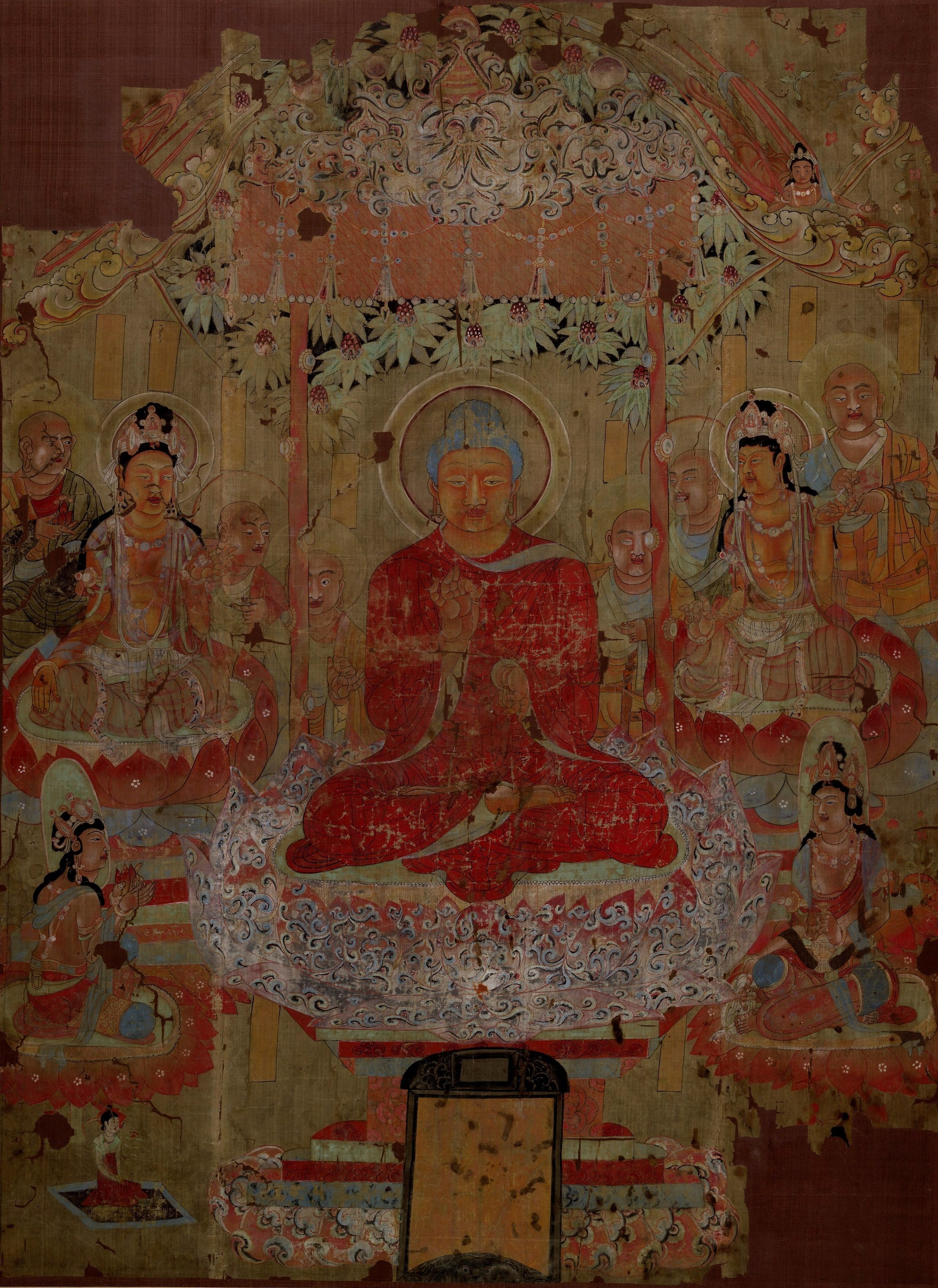 Describing the Doctrine Under a Tree. The image was discovered at Dun Huang. Located at the British Museum Department of Asia.